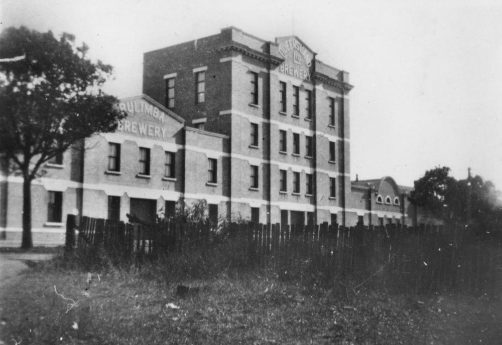 Queensland Brewery premises on Brunswick Street, Fortitude Valley, Brisbane, ca. 1920 The Brunswick Street premises were popularly known as either the Valley Brewery or the Bulimba Brewery. This building was establiished in 1906.